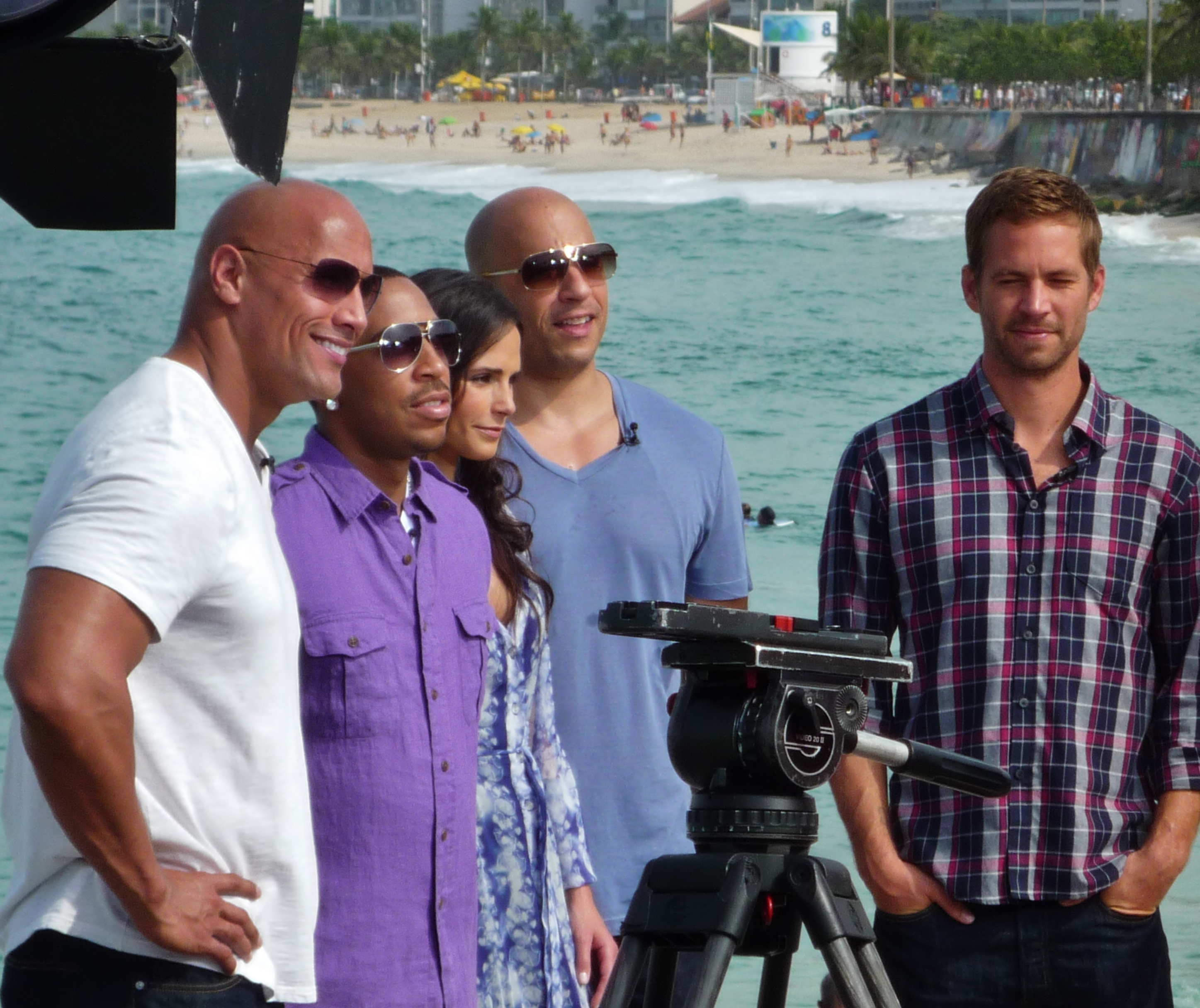 Fast Five cast (Paul Walker, Vin Diesel, Jordana Brewster, Ludacris & the Rock: Dwayne Johnson) pre-interview.